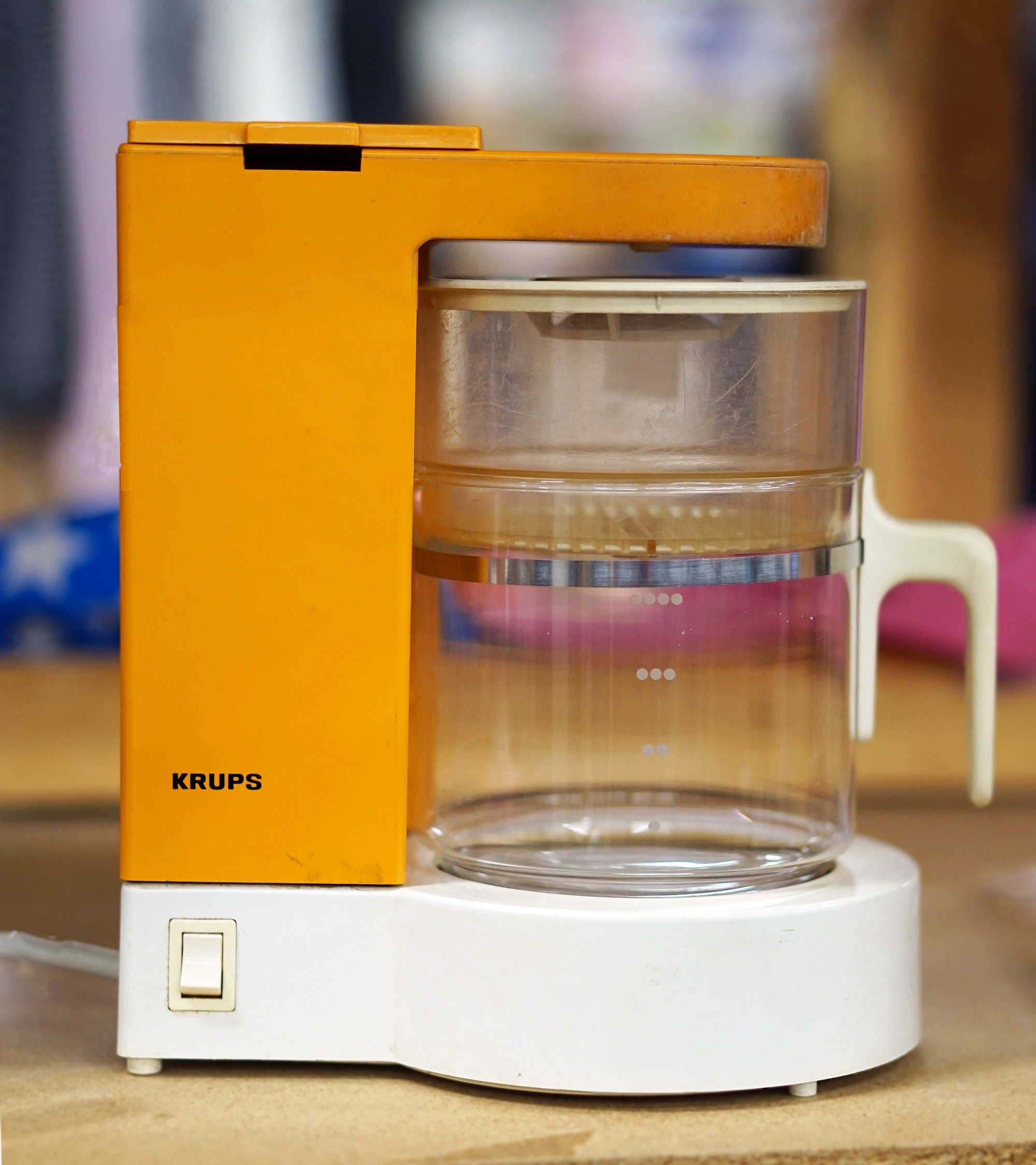 A small coffee maker Krups in a flee market.